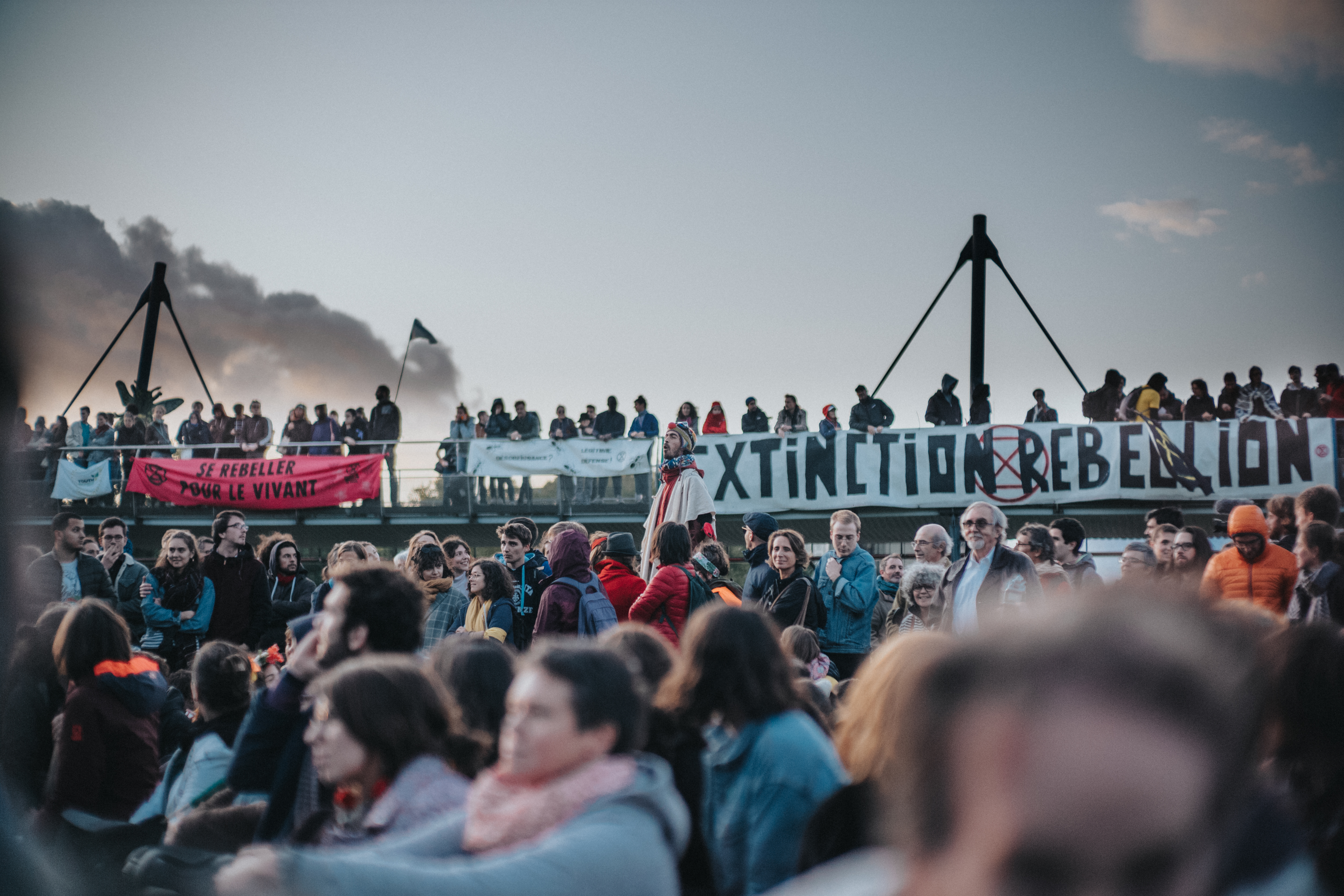 Opening Ceremony of the Extinction Rebellion at Parc de la Villette in Paris on 6 October 2019.